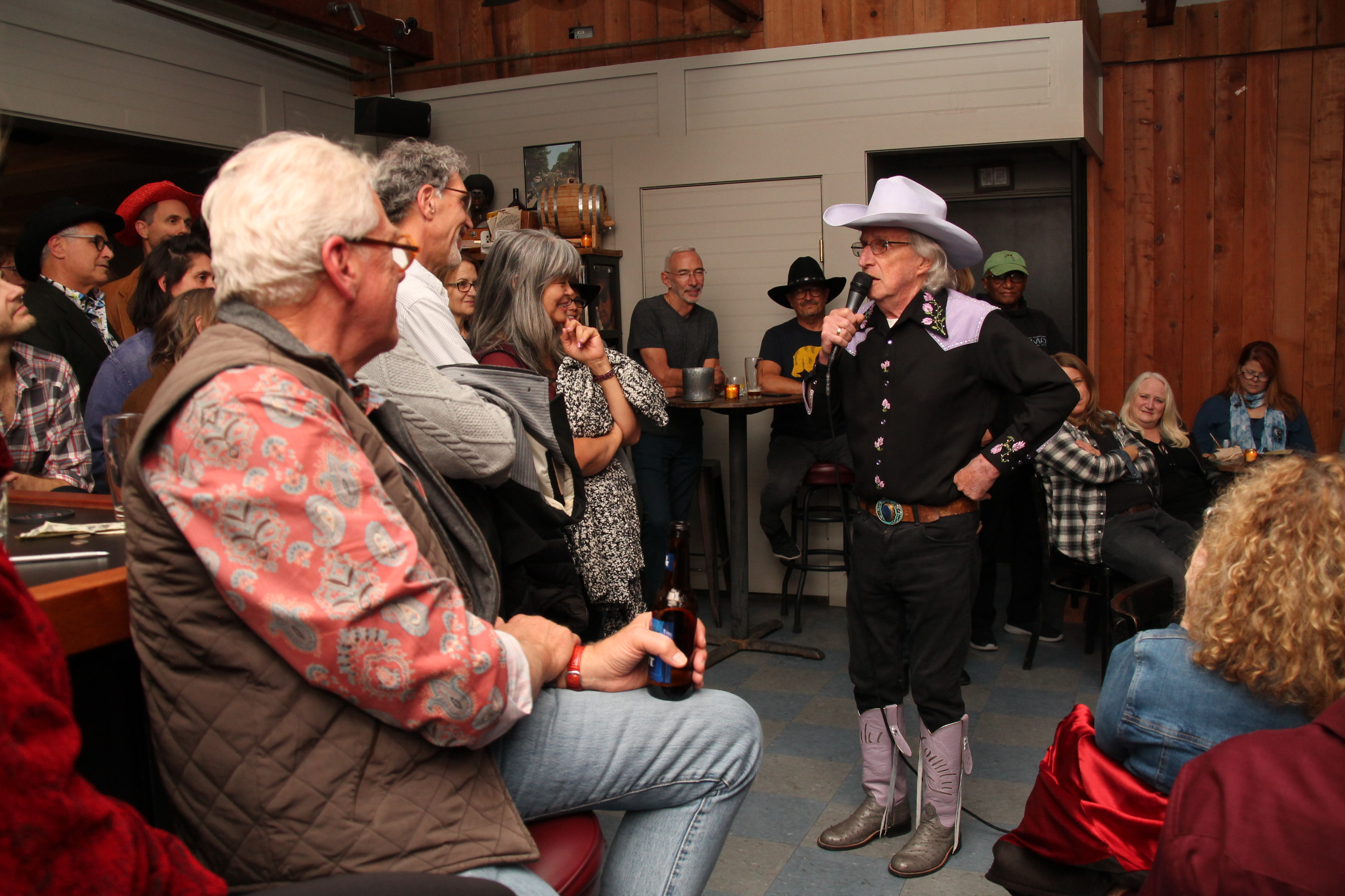 Lavender Country live at The Starling in Sonoma, California